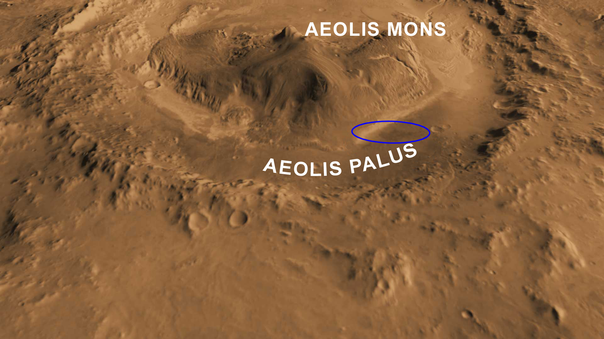 Oblique view of Gale Crater from the North This computer-generated view based on multiple orbital observations shows Mars' Gale crater as if seen from an aircraft north of the crater. NASA has selected Gale as the landing site for the Mars Science Laboratory mission. Gale crater is 96 miles (154 kilometers) in diameter and holds a layered mountain rising about 3 miles (5 kilometers) above the crater floor. The ellipse superimposed on this image indicates the candidate landing area, 12 miles by 4 miles (20 by 7 kilometers).. The portion of the crater within the landing area has an alluvial fan likely formed by water-carried sediments. The lower layers of the nearby mountain -- within driving distance for Curiosity -- contain minerals indicating a wet history. The candidate landing site is at 4.5 degrees south latitude, 137.4 degrees east longitude. This view was created using visible-light imaging by the Thermal Emission Imaging System camera on NASA's Mars Odyssey orbiter and three-dimensional information from the Mars Orbiter Laser Altimeter, which flew on NASA's Mars Global Surveyor orbiter. Color information is generalized from color imaging of portions of the scene by the High Resolution Imaging Science Experiment camera on NASA's Mars Reconnaissance Orbiter. The vertical dimension is not exaggerated. The Mars Science Laboratory spacecraft is being prepared for launch during the period Nov. 25 to Dec. 18, 2011. In a prime mission lasting one Martian year -- nearly two Earth years -- after landing, researchers will use the rover's tools to study whether the landing region has had environmental conditions favorable for supporting microbial life and for preserving clues about whether life existed.